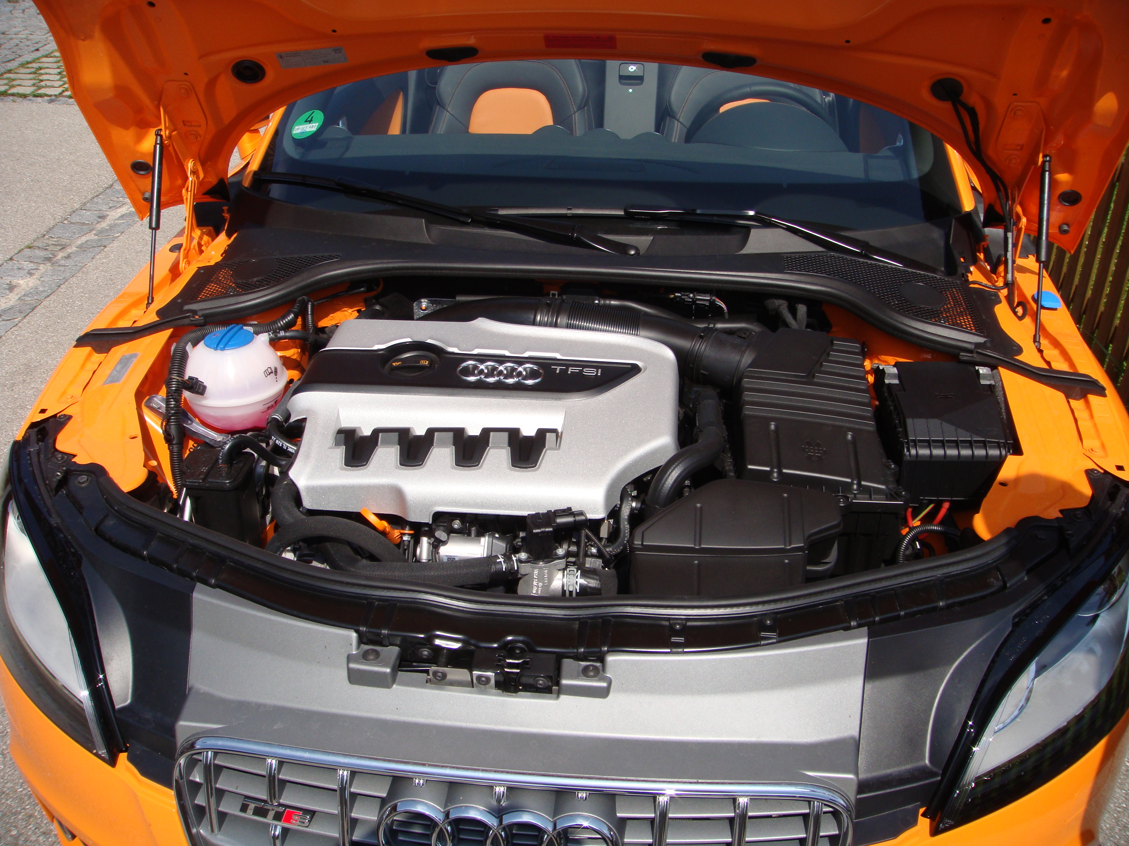 Under the hood of a 2008 Audi TTS Roadster with the TFSI engine.